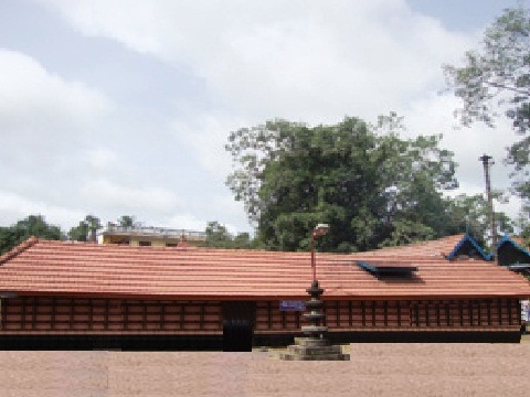 Chakkamkulangara Temple in Thrippunithura, Kerala, India